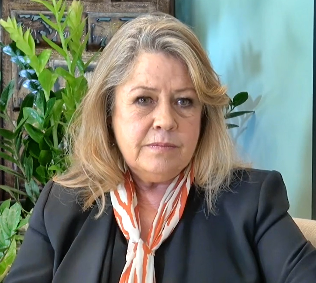 Australian actress Noni Hazlehurst on Balance with Deborah Hutton in 2016